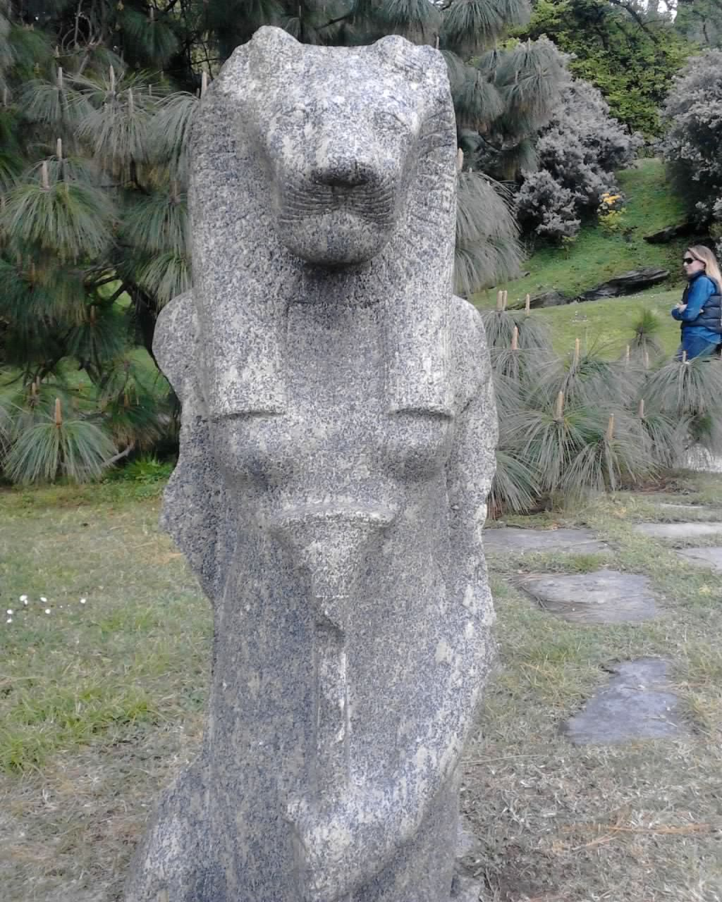 Egyptian statue at Villa Melzi - Bellagio - ITALY